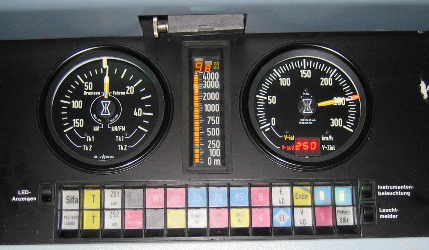 Cockpit display MFA 4/1 from Deuta on an InterCity Express 2 train driving under LZB, a cab signalling system for high-speed trains